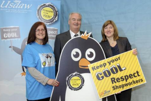 Alison USDAW Respect Shopworkers